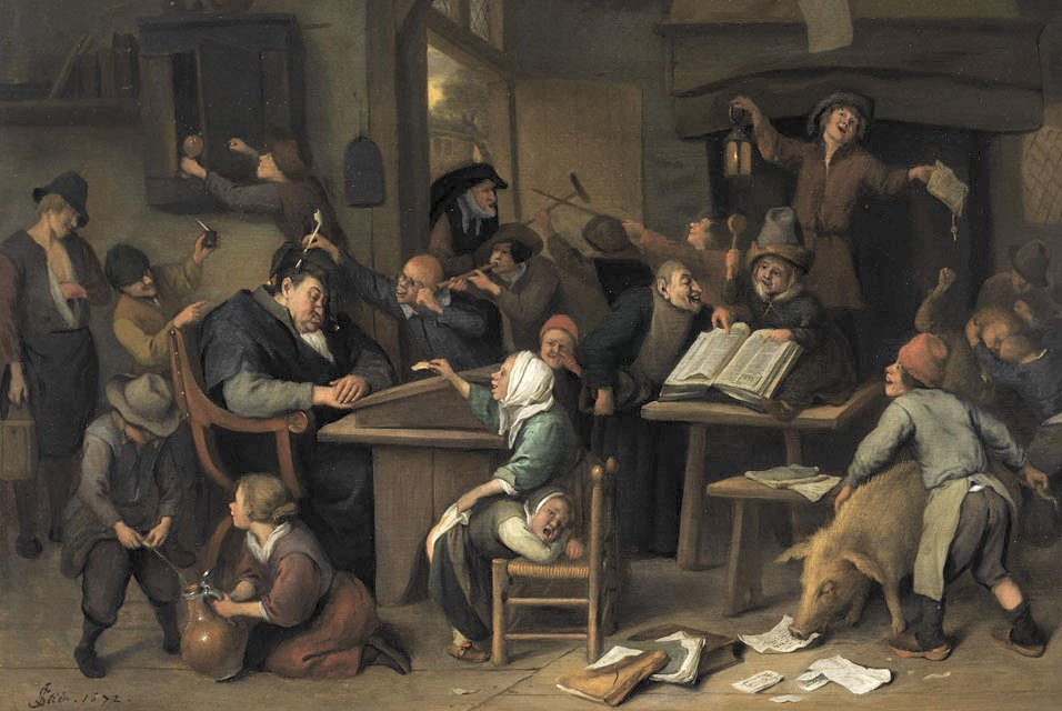 A school class with a sleeping schoolmaster, oil on panel painting by Jan Steen, 1672